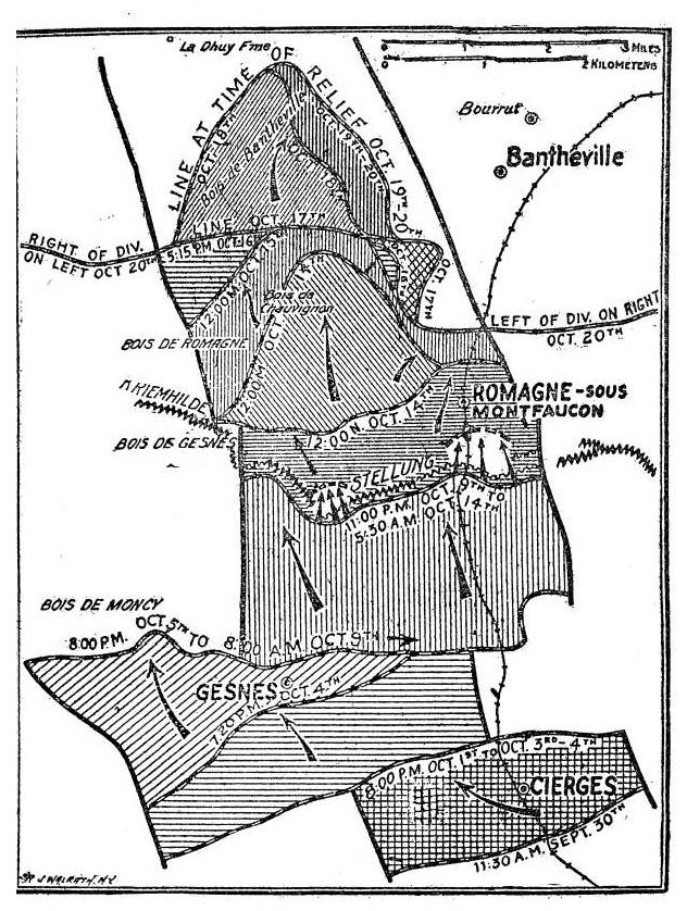 "The Division as a Fighting Machine," Wisconsin Magazine Of History. Volume: 04, Issue: 1 (1920-1921)